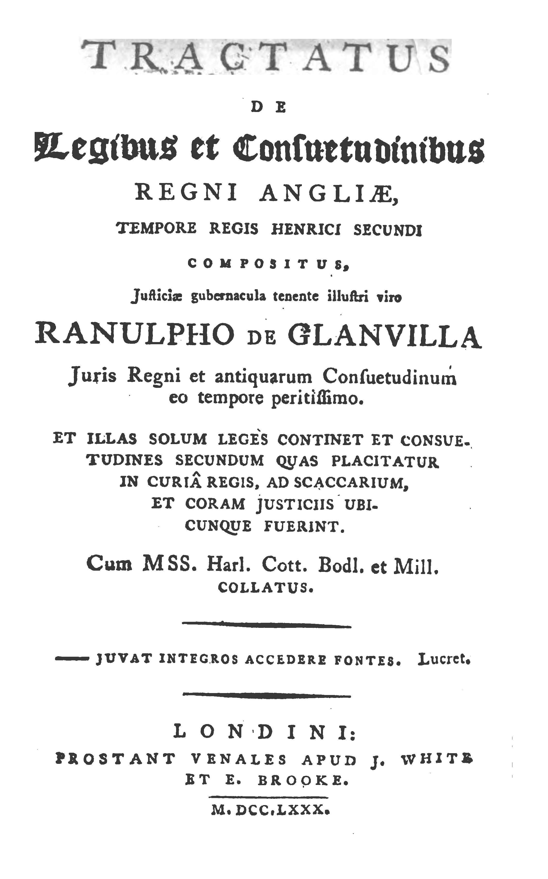 Title page of Ranulfo de Glanvilla [Ranulf de Glanvill] (1780) Tractatus de Legibus et Consuetudinibus Regni Angliæ, tempore regis Henrici Secundi compositus, justiciæ gubernacula tenente illustri viro Ranulpho de Glanvilla, Juris Regni et antiquarum Consuetudinum eo tempore peritissimo. Et illas solum leges continet et consuetudines secundum quas placitatur in Curiâ regis, ad Scaccarium, et coram justiciis ubicunque fuerint. Cum MSS. Harl. Cott. Bodl. et Mill. collatus [Treatise on the laws and customs of the Kingdom of England, composed in the time of King Henry II, while the illustrious man Ranulph de Glanvill, who at the time was the most experienced in the law and the ancient customs of the kingdom, held the position of chief justiciar. And it contains only those laws and customs according to which pleas are made in the court of the king, at the court of the exchequer, and before justices wherever they may be. Collated from the Harleian, Cottonian, Bodleian, and Milles manuscripts.], London: Prostant venales apud [offered for sale by the house of] J. White et E. Brooke OCLC: 437769980.